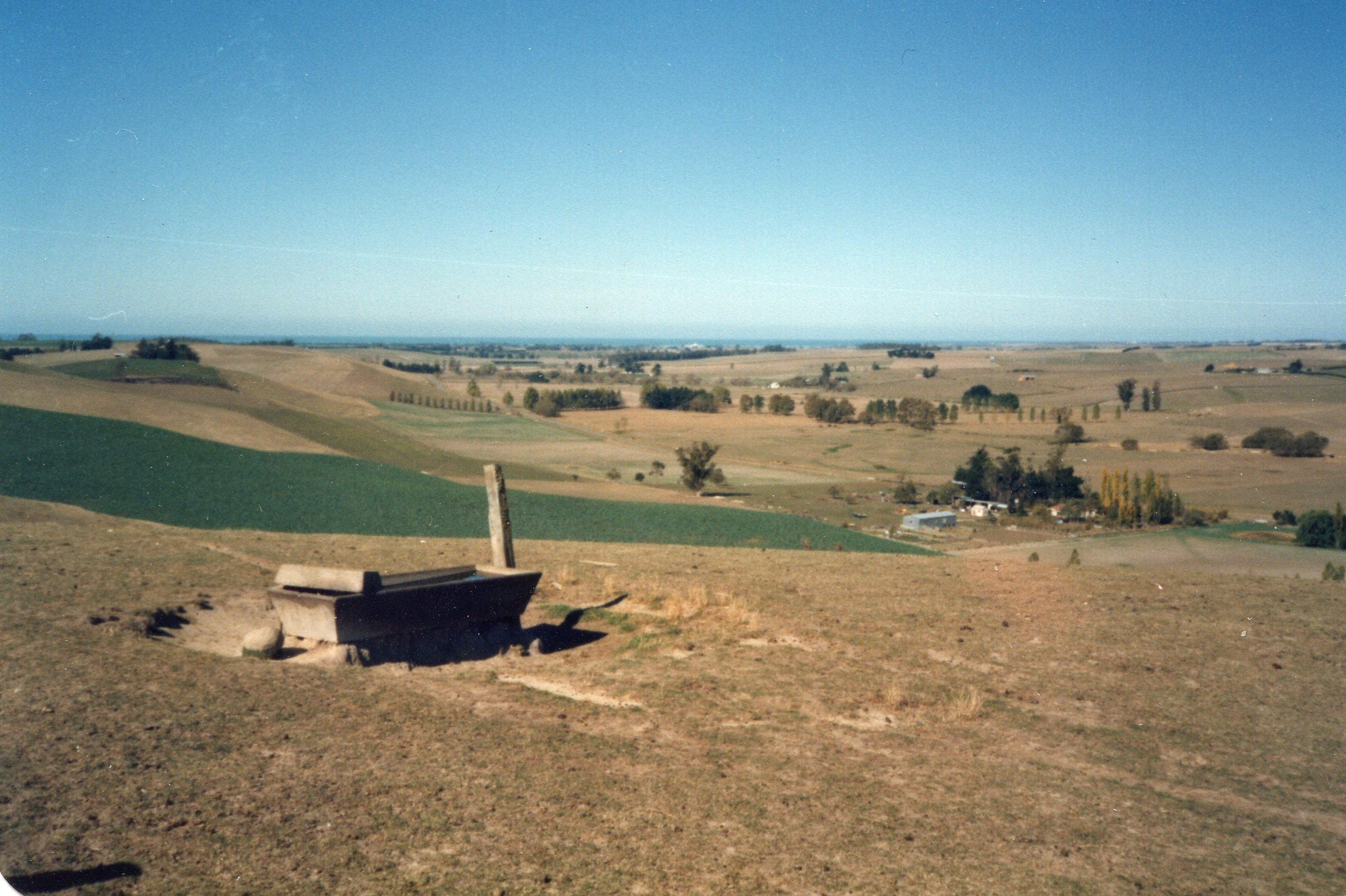 Farm landscape